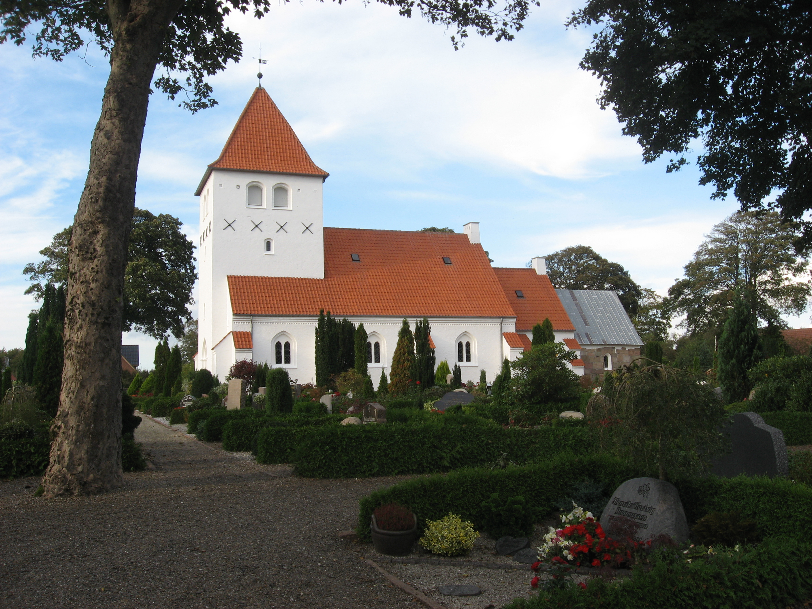 The church of Hejnsvig in the Diocese of Ribe, Denmark